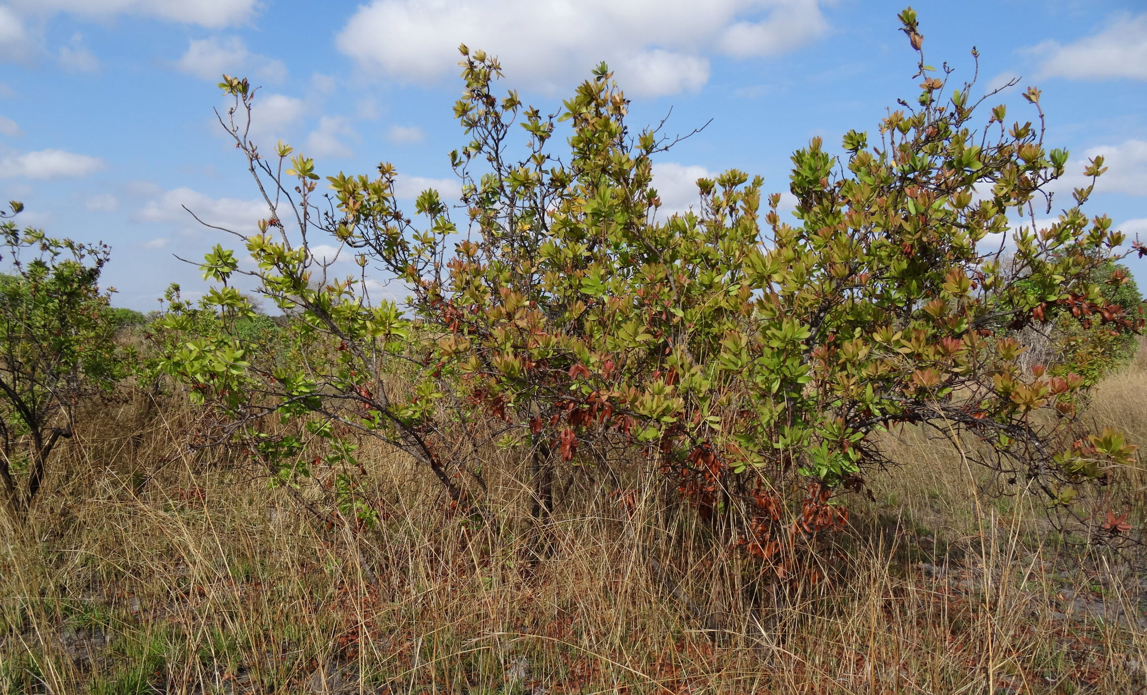 In a humid grassy vegetation, close to Namituri village (Namuno district, Cabo Delgado province) in Northern Mozambique. Only about 500 m.a.s., a surprisingly low altitude for a tropical Protea.